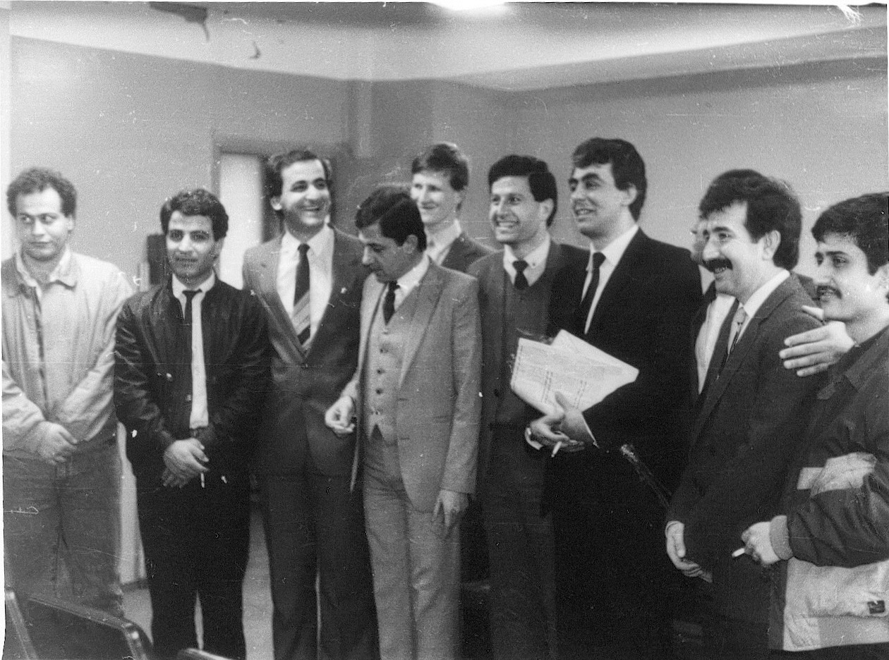 Aiman after poet meeting in one of the USSR republic